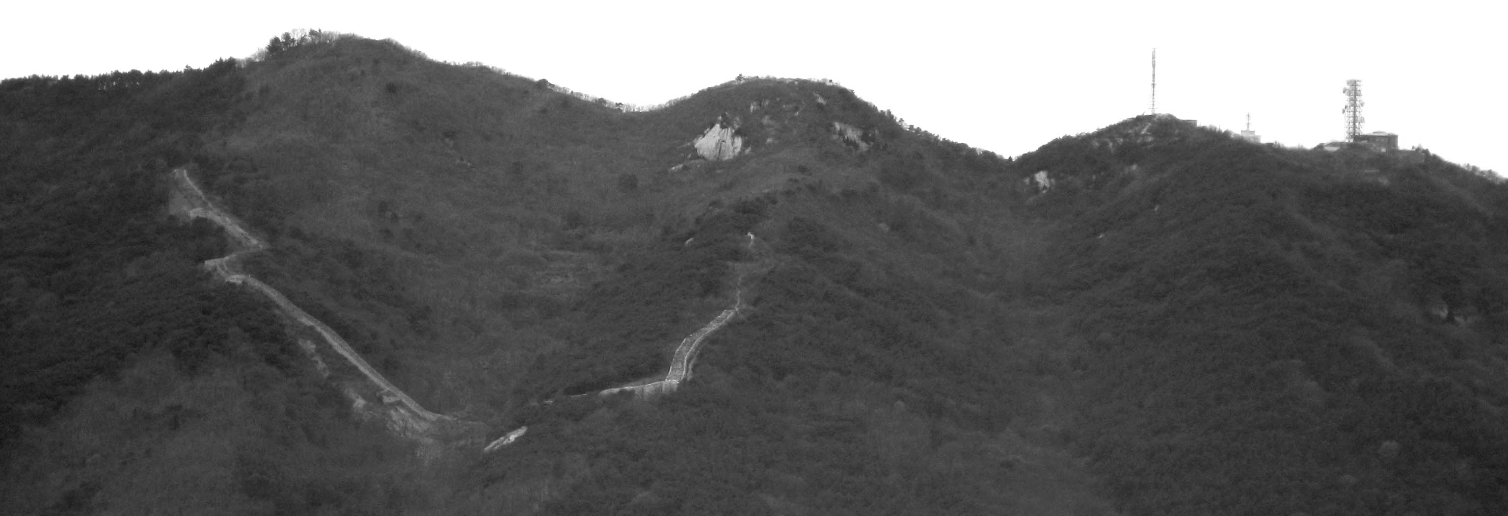 Taken November 24, 2010. View of the peaks and eastern face of HL/JB-168 Mireuksan (mountain) in Iksan, Jeollabukdo, Korea. Viewer standing on HL/JB-192 Yonghwasan at an elevation of approximately 300 meters ASL. Features from left to right (south to north): Janggunbong peak (430m), secondary peak with helipad, former military antenna tower, mini tower with video surveillance, commercial relay towers. Below principal peak to secondary peak is the fortress wall remaining from Mireuksanseong (mountain fortress) [1]